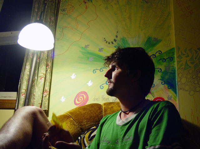 Craig Minowa at home in 2004